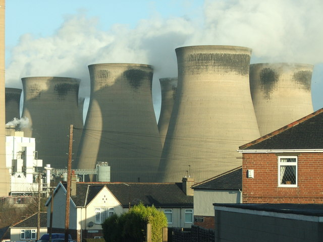 Ferrybridge Power Station